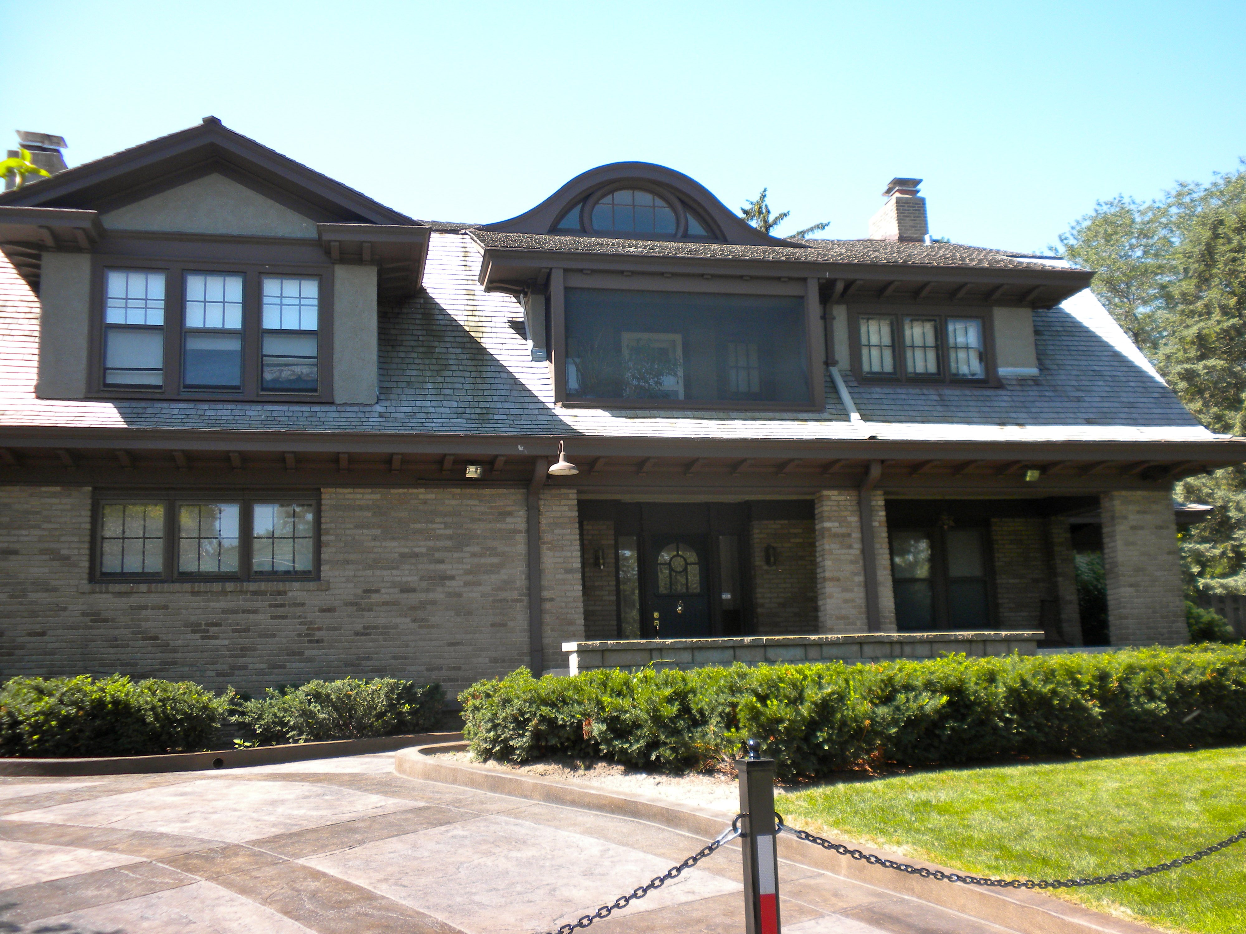 House in Dundee-Happy Hollow Historic District, in Omaha, Nebraska. District on NRHP since July 22, 2005. The district is roughly bounded by Hamilton on the north, JE George and Happy Hollow on the west, Leavenworth on the south, and 48th on the east, in Omaha. This particular house is widely reported to be the home of Warren Buffett, and forms part of his mystique, having bought it early in his career (1958 for $30,000?) and not moved. It has obviously been extensively renovated however, and is not typical of the somewhat smaller houses in the HD.